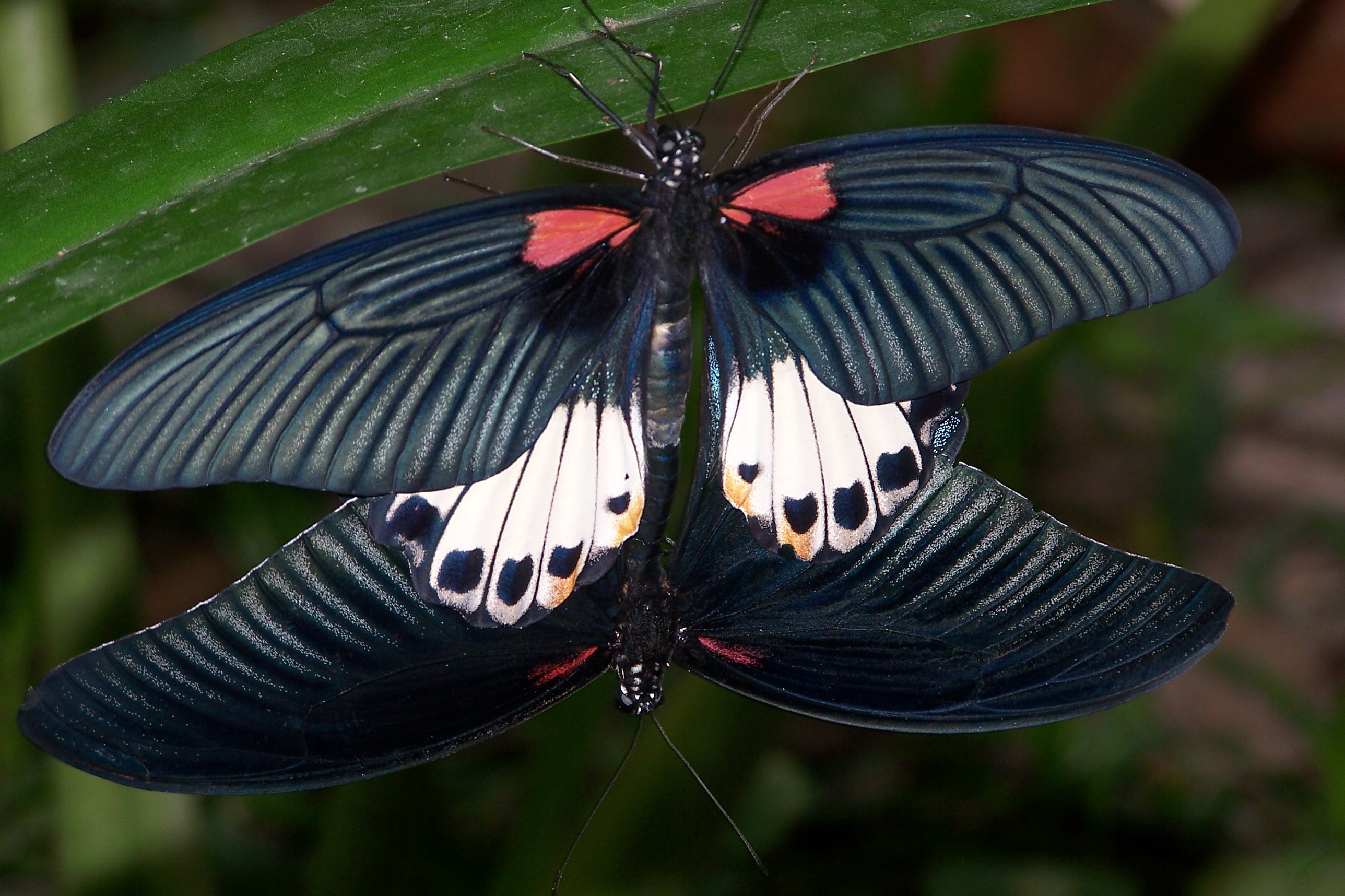 Mating pair seen at Angkor Butterfly Center